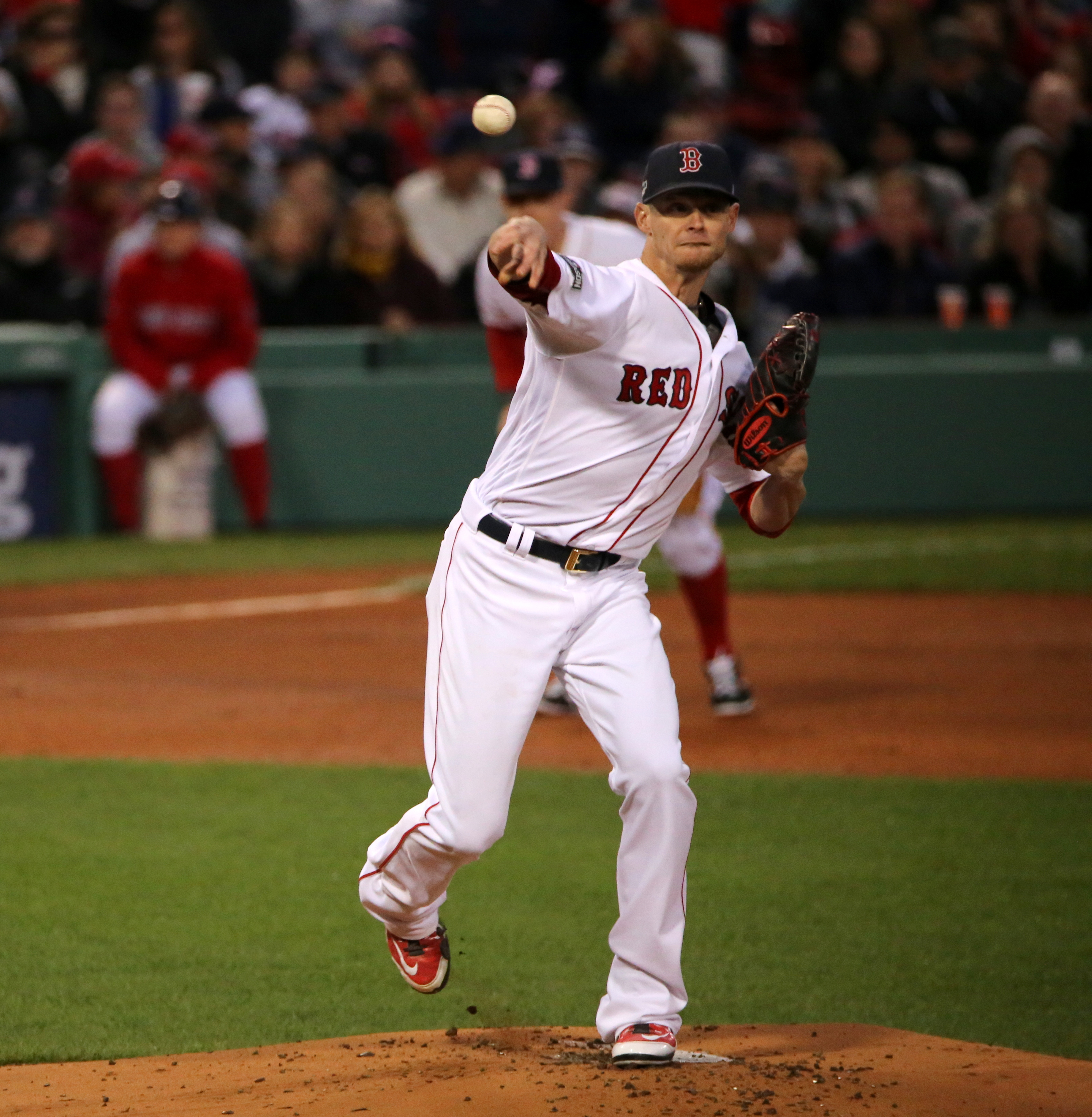 Red Sox starter Clay Buchholz checks the runner at first during ALDS Game 3.